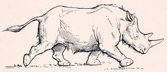 Merck's rhinoceros Rhinoceros merckii (Stephanorhinus kirchbergensis)